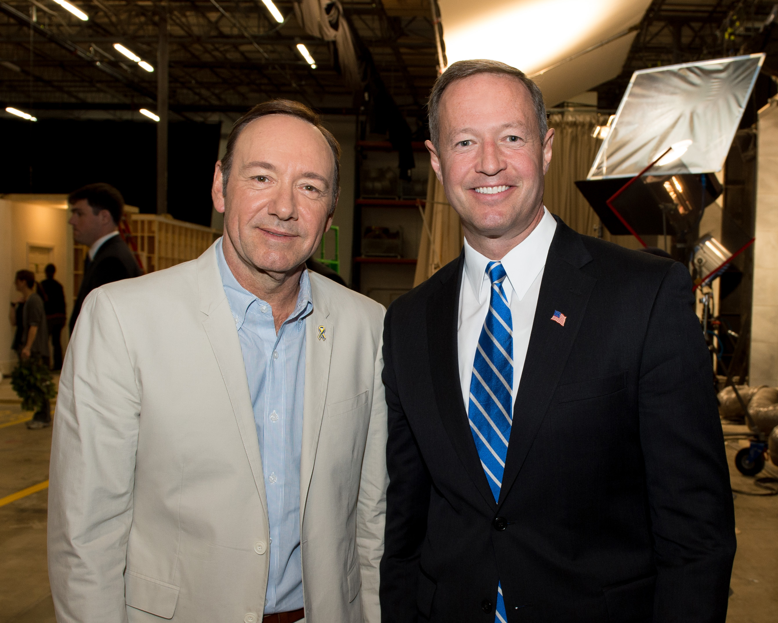 Governor Tours the House of Cards Set. by Jay Baker at Joppa, MD. Maryland Gov. Martin O'Malley visits the set of House of Cards at Joppa, MD in 2013.